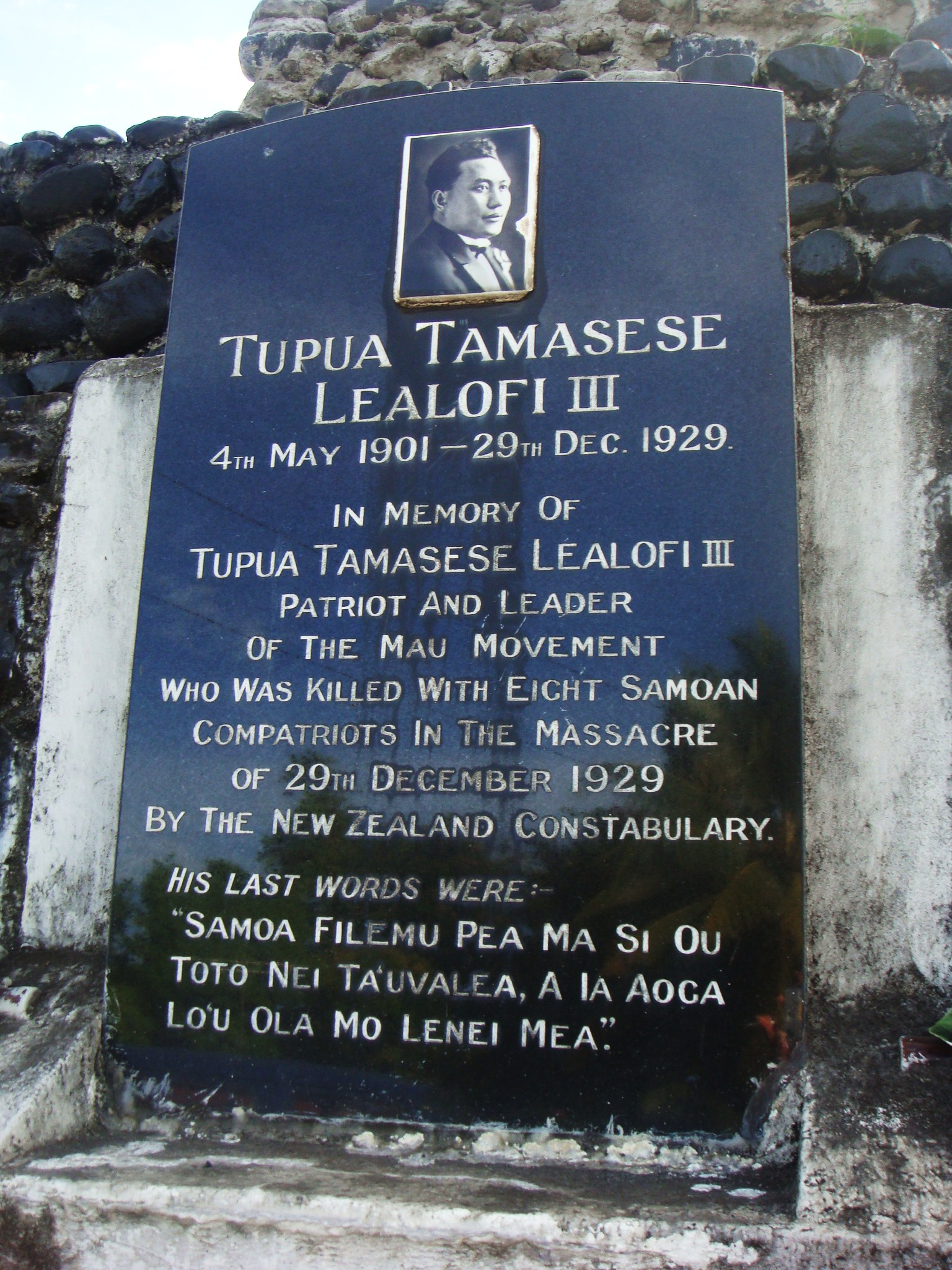 Gravestone with Samoan inscription of Tupua Tamasese Lealofi III, leader of pro-independence movement, Samoa. Gagana Samoa: Le ma'a o le tu'ugamau a Tupua Tamasese Lealofi III e tusi ai ana upu taua mo Samoa.